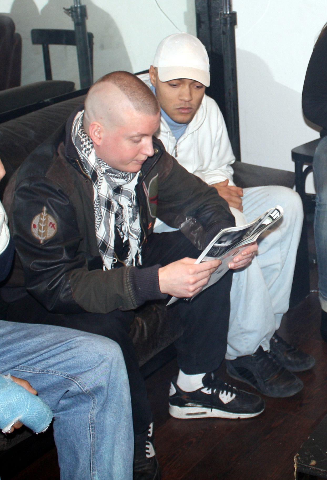 Nico and Tarek - K.I.Z.